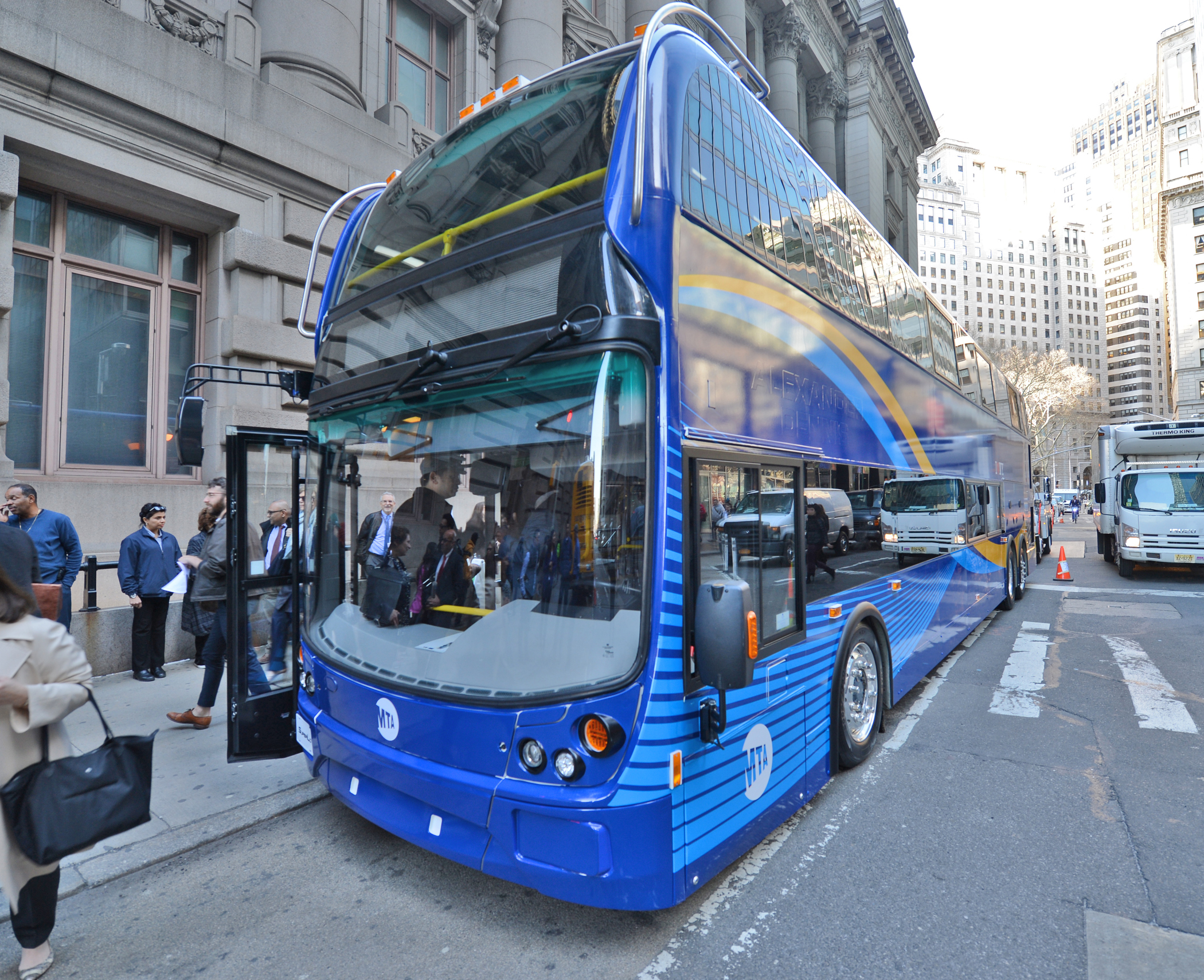 In conjunction with the announcement of MTA New York City Transit's Bus Plan, a new double-decker "SuperLo" bus, earmarked for express routes, and two all-electric local buses were put on display in front of MTA Headquarters on Mon., April 23, 2018. Photo: Marc A. Hermann / MTA New York City Transit